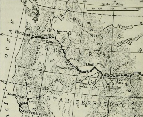 Ox-team pioneer Ezra Meeker (1830-1928) went over the Oregon Trail in 1852, this is the western half of his travels.